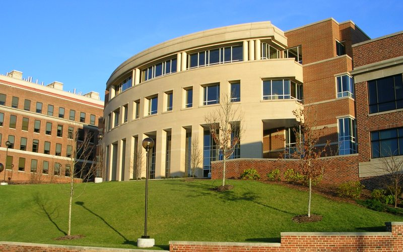 University,Morgantown, West Virginia, UsaWVU Campus